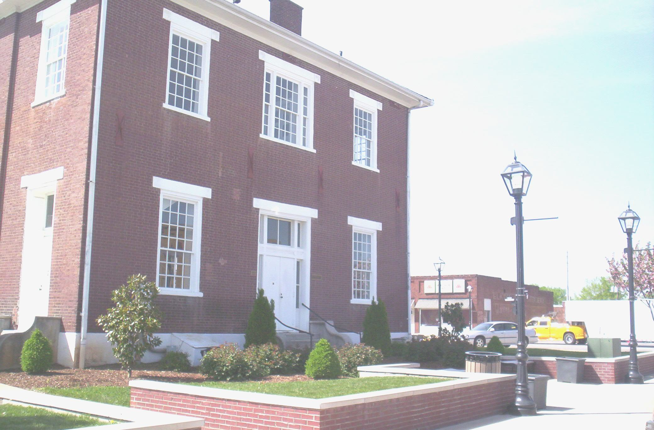 OLD TODD COUNTY-KY COURTHOUSE